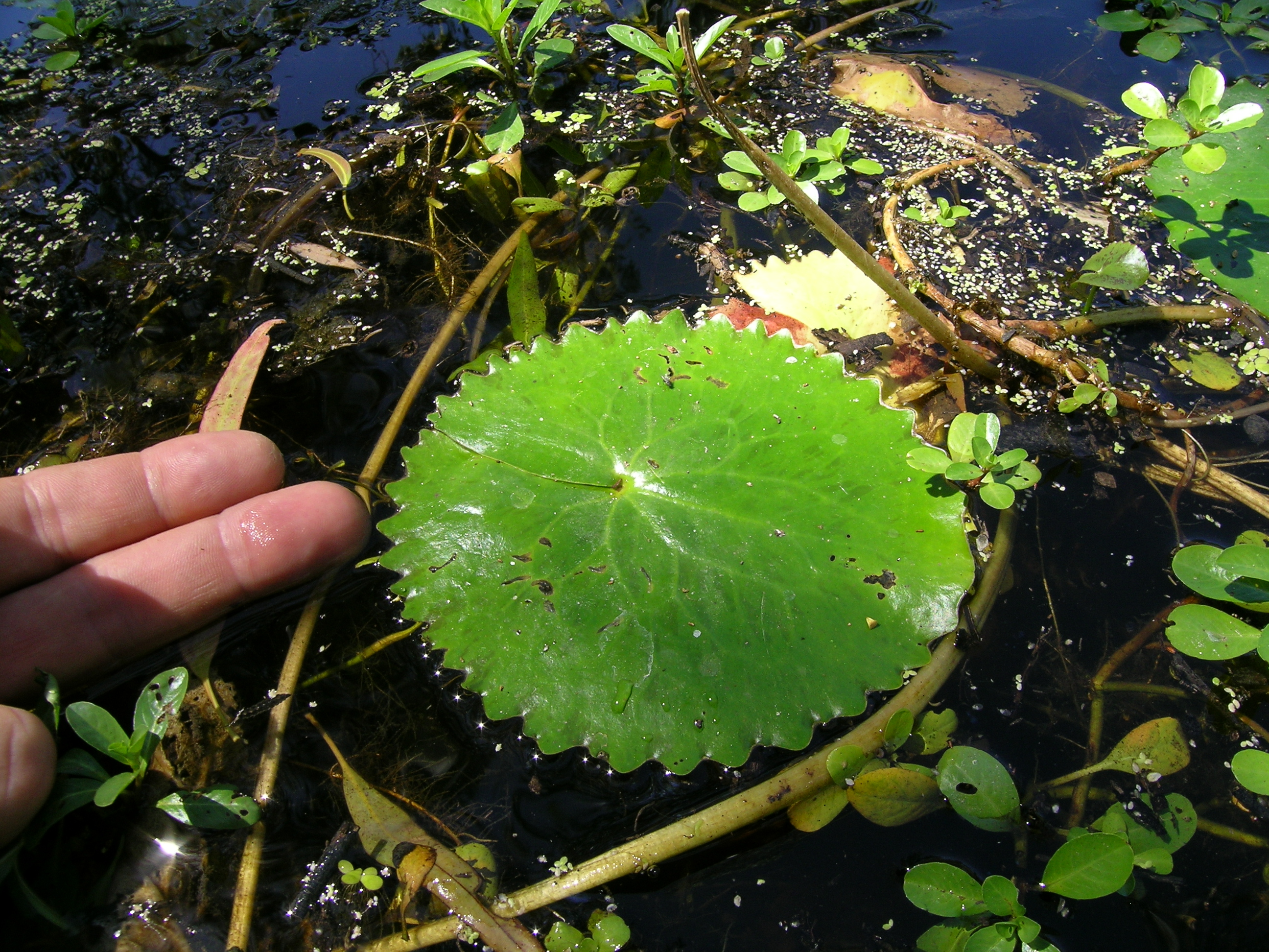 Native, warm season, perennial herb with long-stemmed floating leaves and ± floating stolons to 2 m long. Basal leaves are ovate and 5–12 cm long, with a strongly cordate base and crenate margins; leaves on stolons smaller with shorter petioles, these subtending inflorescences of few to many flowers. Flowers are solitary on pedicels 3–8 cm long. Corolla is 15–20 mm long and yellow, with fringed margins. Flowering is from spring to autumn. Grows in slow-flowing water to about 1.5 m deep, usually on a mud substrate; it can persist on drying mud. Widespread in inland districts.